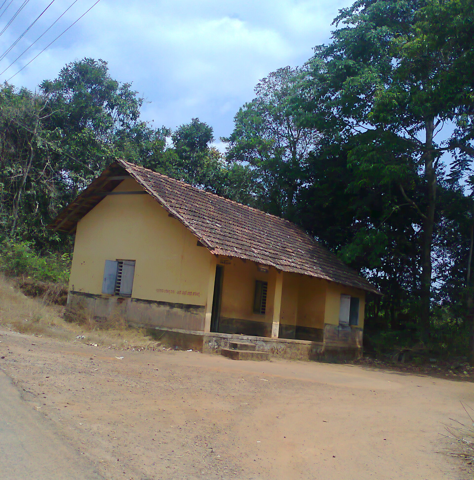 This is a primary school at Peranankila